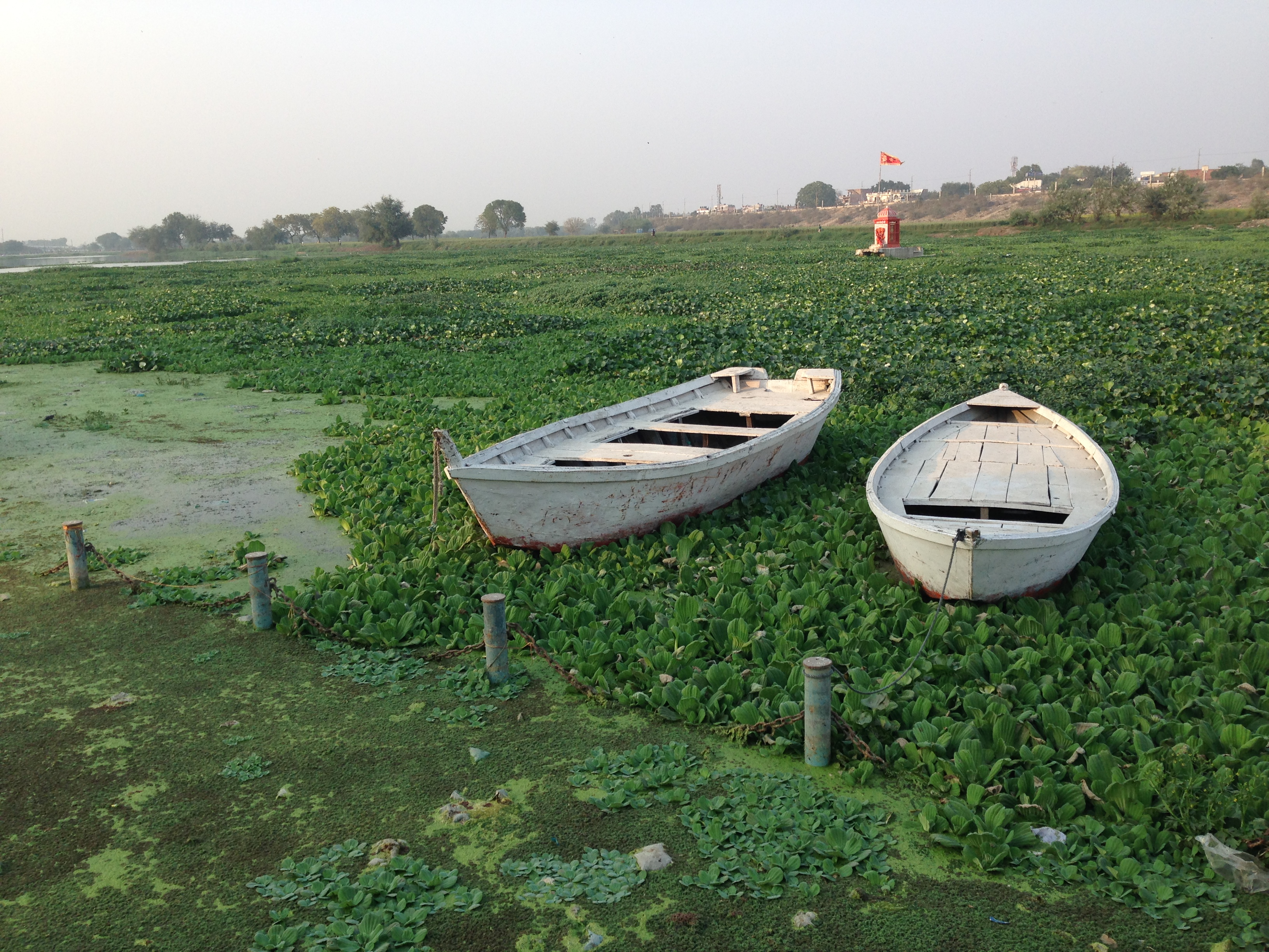 Gomti River's Water stopped to construct riverfront (March 2016)